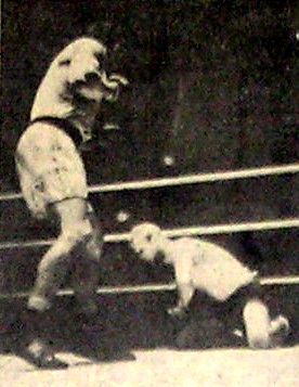 Boxing. Argentine Rafael Iglesias knocks down Swedish Gunnar Nilsson. Final 1948 Summer Olympics (London) August 13, 1948.